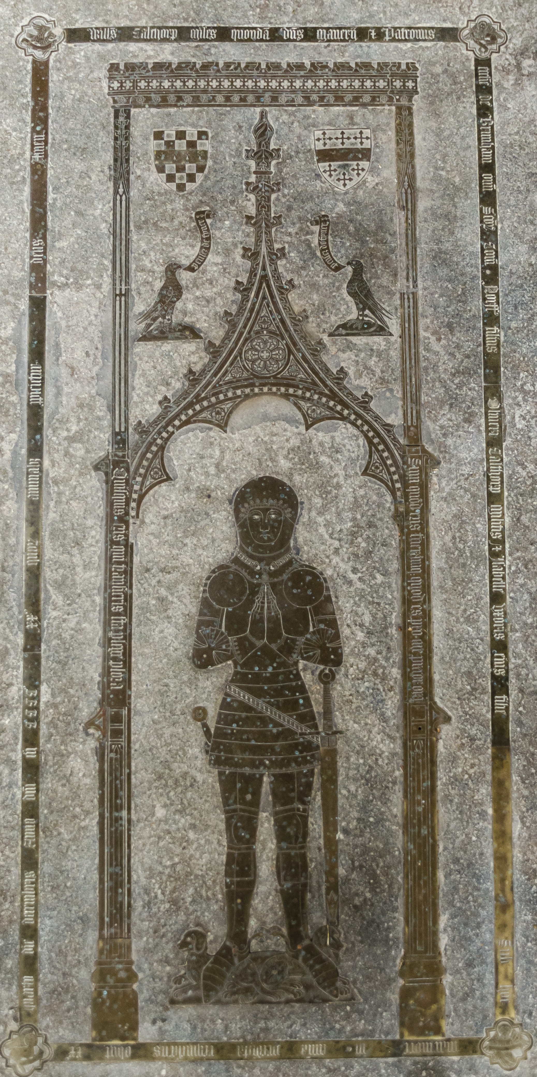 Brass to Sir William Calthorpe (d.1420 / MCCCCXX), All Saints' Church, Burnham Thorpe, Norfolk. Arms above dexter: Chequy or and azure, a fess ermine (Calthorpe); sinister: arms of St Omer (Azure, a fess between six cross-crosslets or) for his second wife Sybilla de St Omer, daughter and heiress of Sir Edward de St Omer. (Source: Engravings of Sepulchral Brasses in Norfolk Tending to Illustrate ..., Volume 1, By John Sell Cotman, plate 18, page 16 [1]